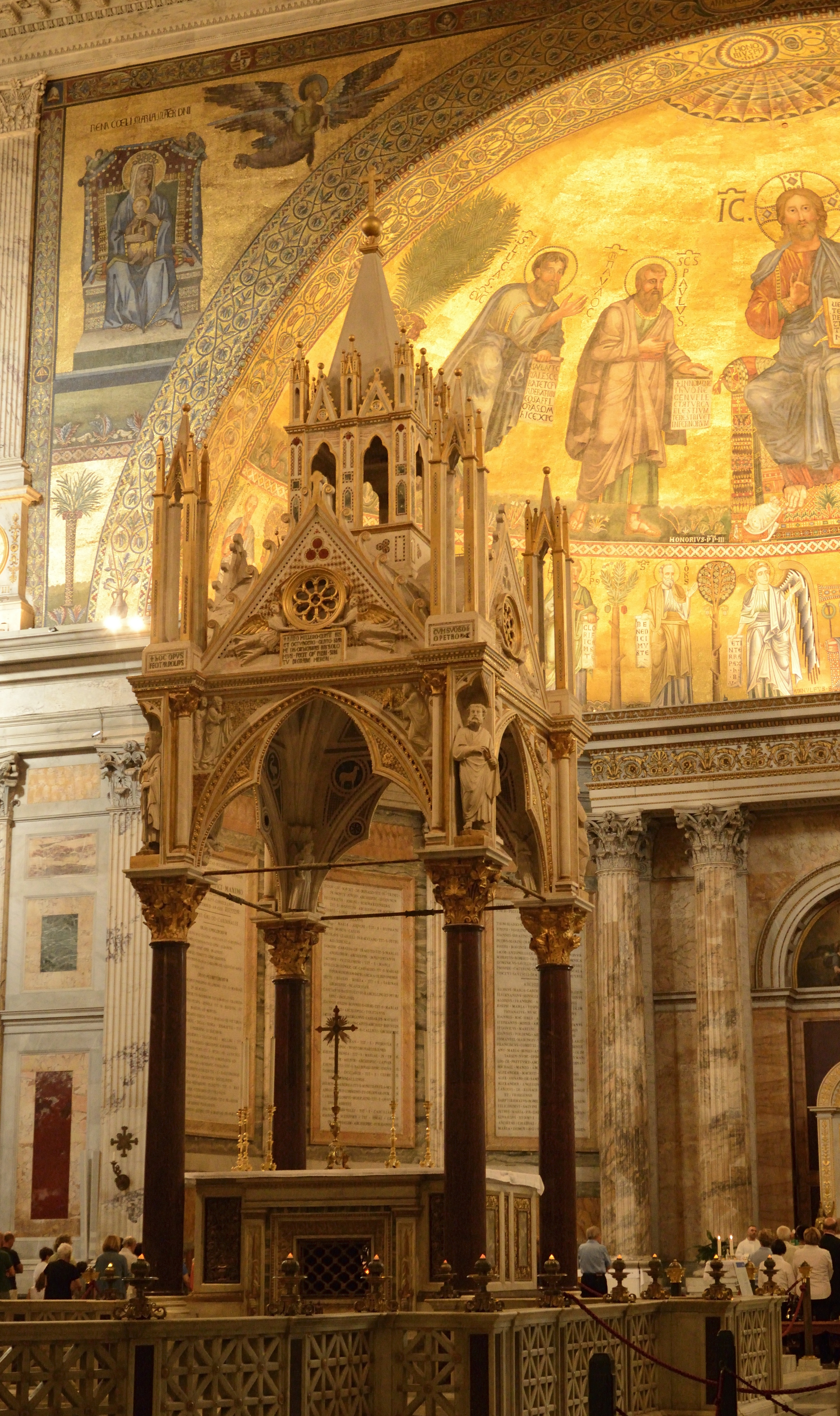 Ciborio S. Paolo fuori le mura